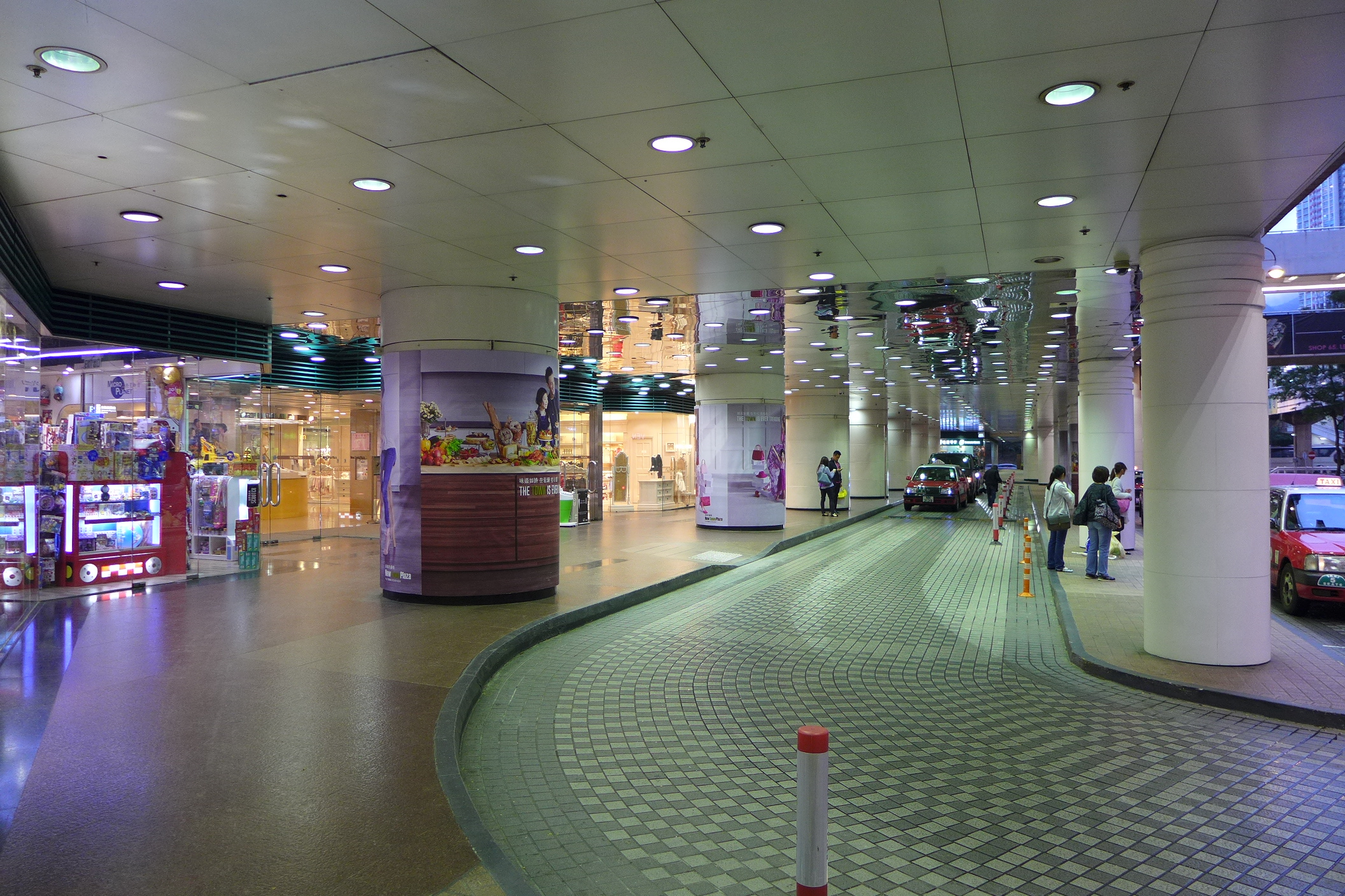 New Town Plaza Phase III Drop off area